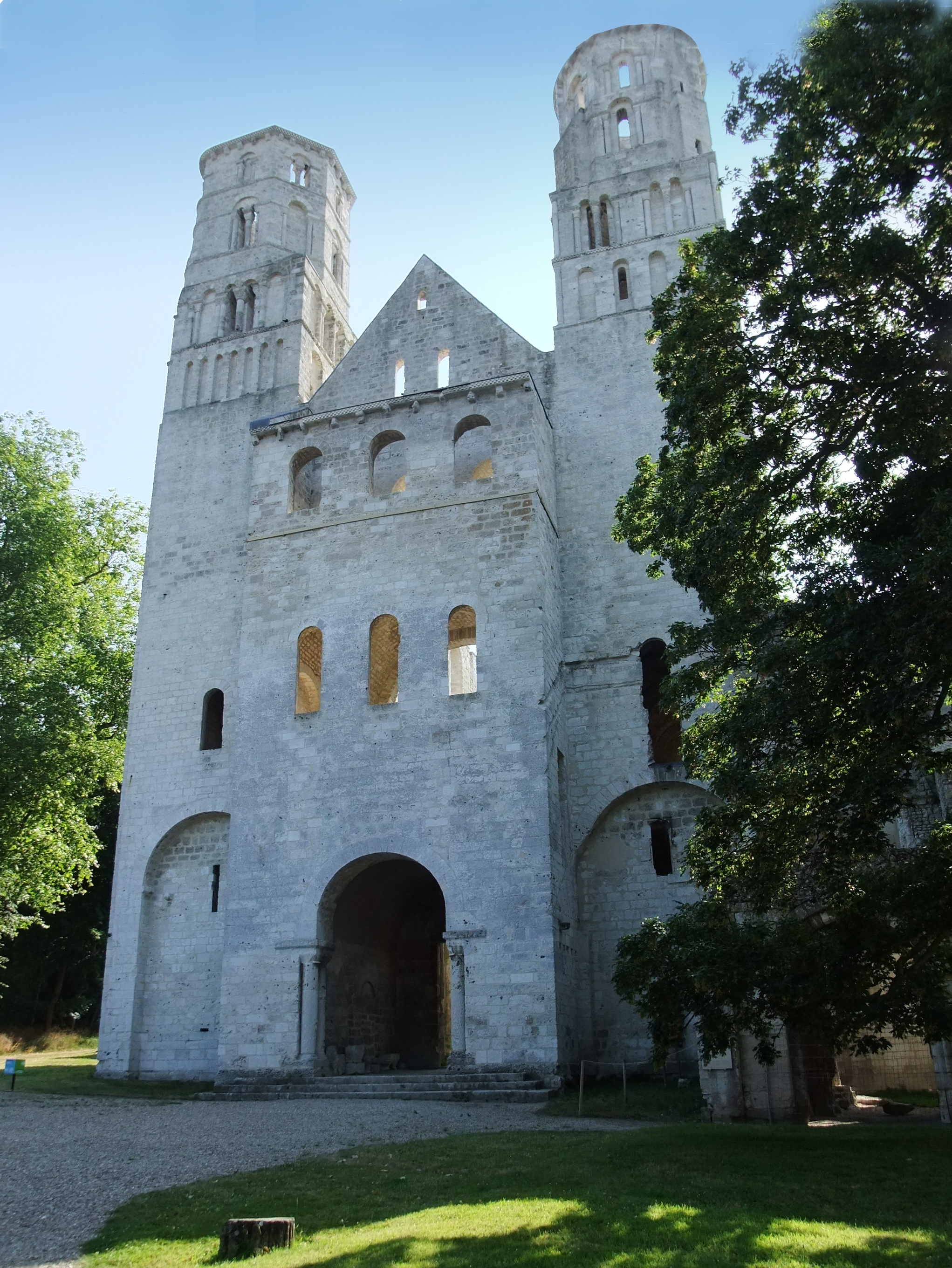 Church of the Abbey of Jumièges, France